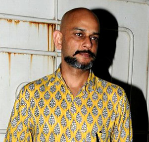 Vijay Krishna Acharya at a screening of Kaatru Veliyidai